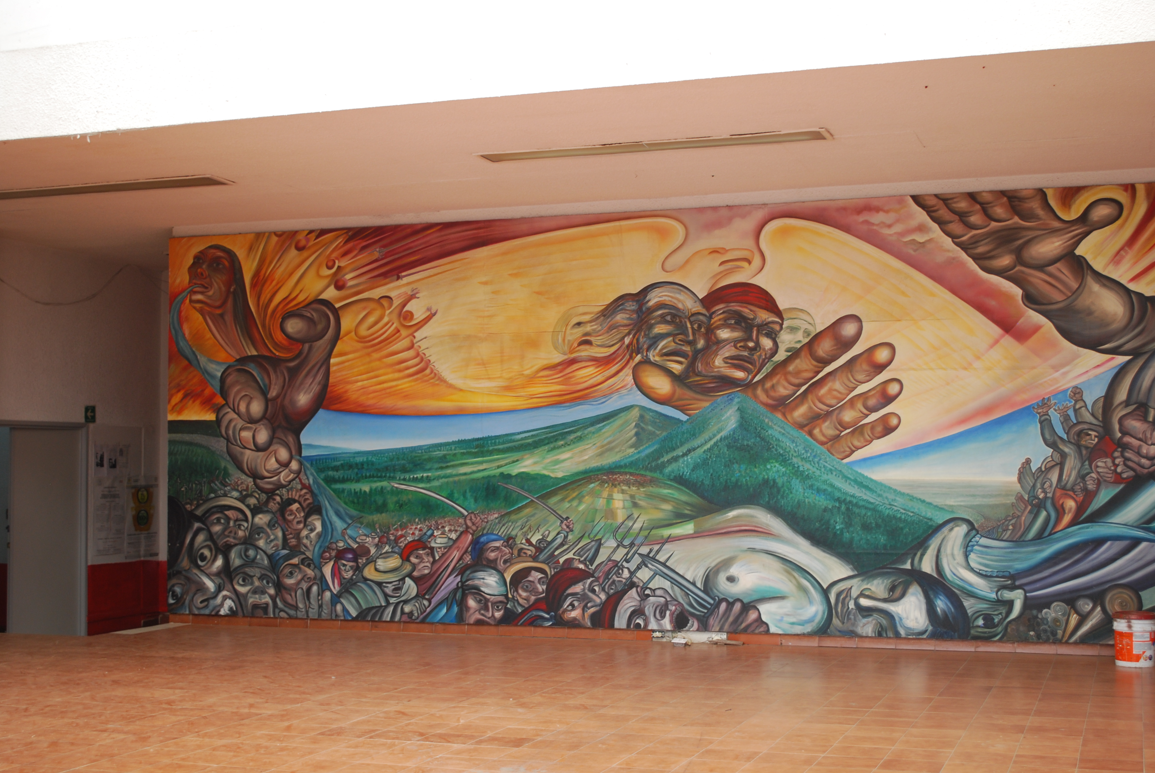 Mural of the Cuajimalpa Cultural Center in Cuajimalpa, Mexico City